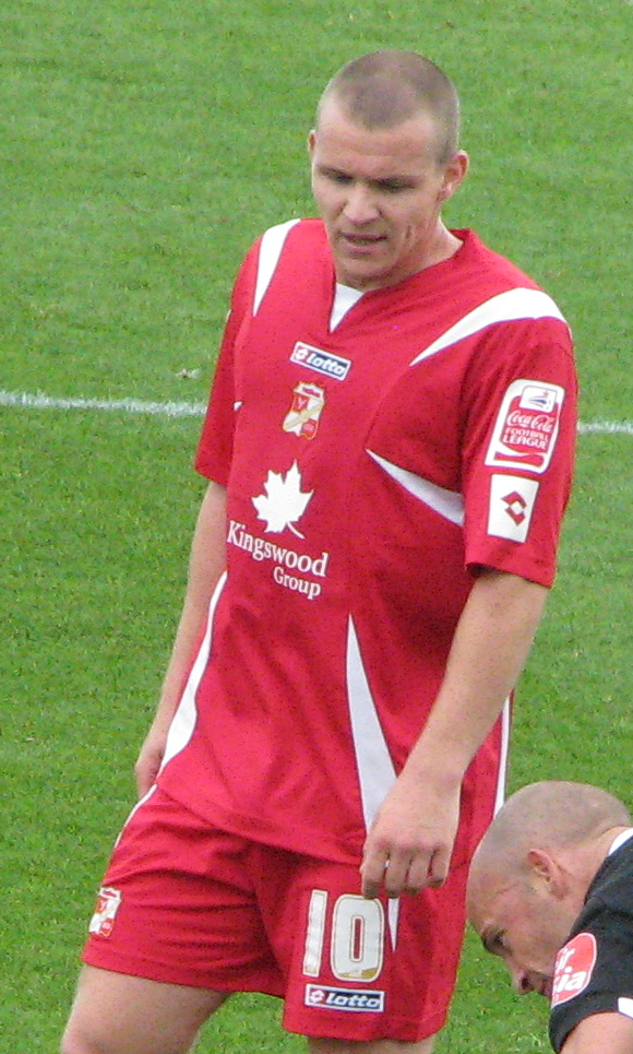 Jon-Paul McGovern. Image cropped from original at flickr.